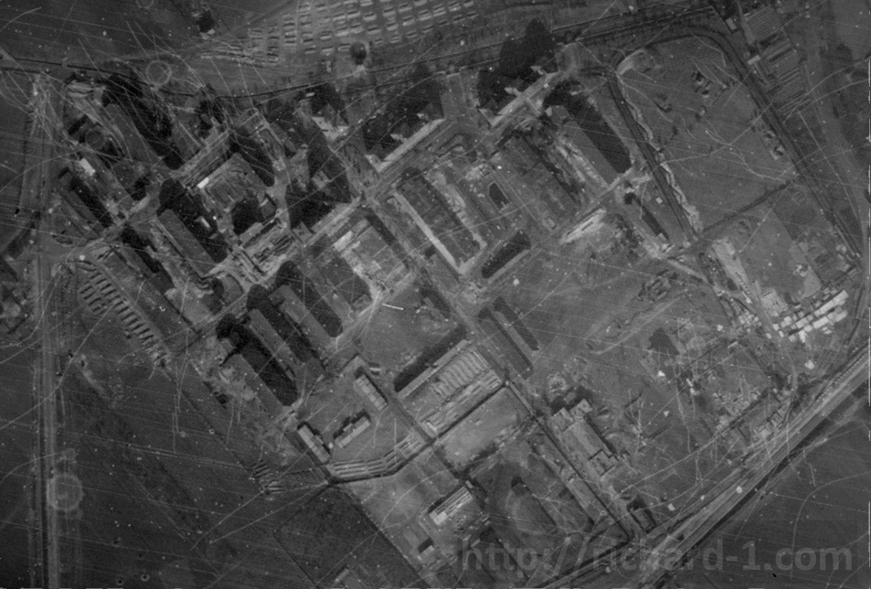 Aerial photograph showing the barracks of Leitmeritz concentration camp